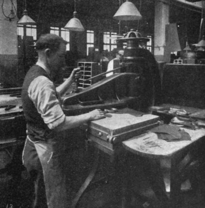 Upper leather cutting room, showing a clicking machine, W. H. McElwain Company, Manchester, N. H.